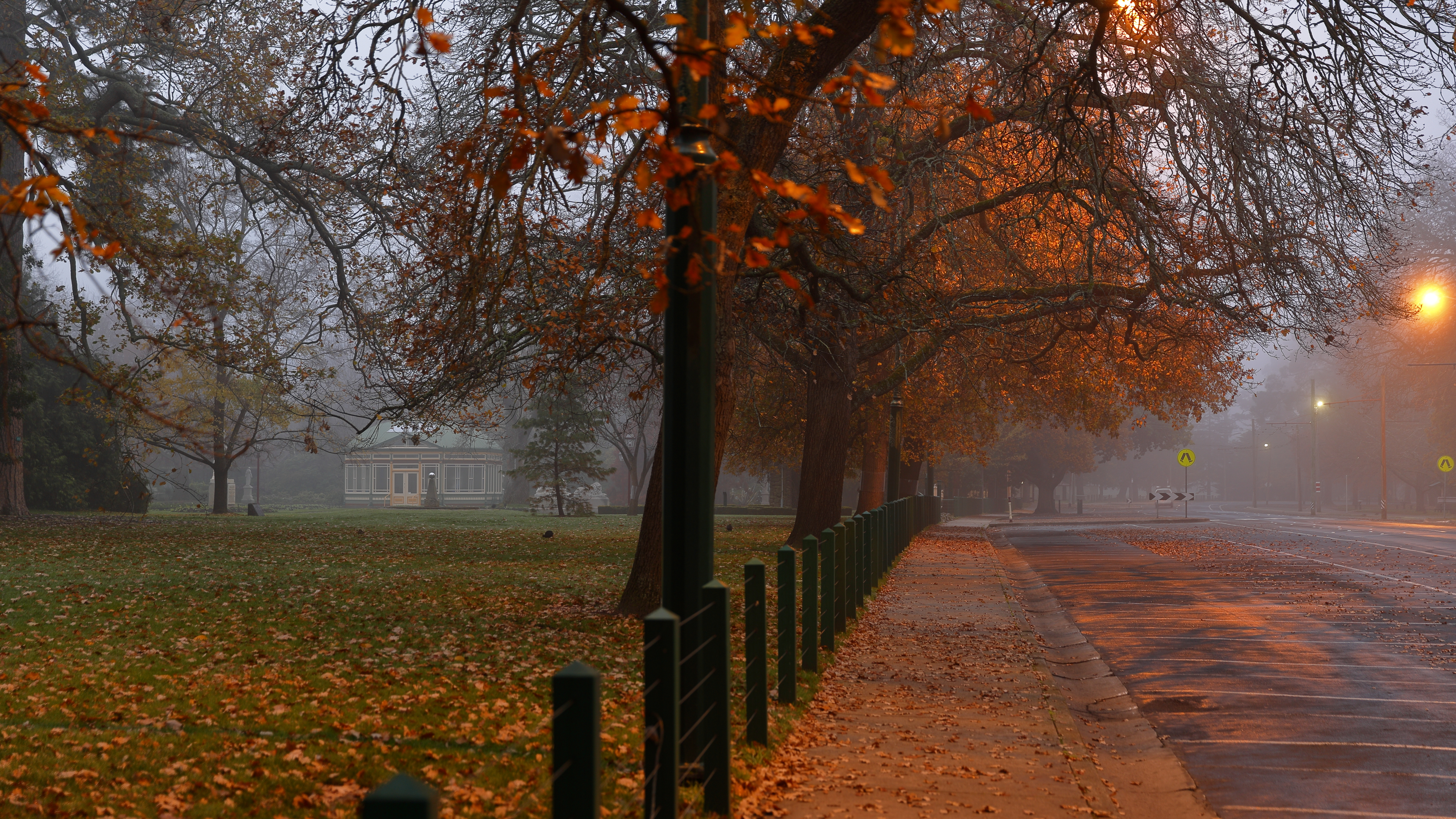 Oaks and fog along Lake Wendouree in Ballarat, Victoria.